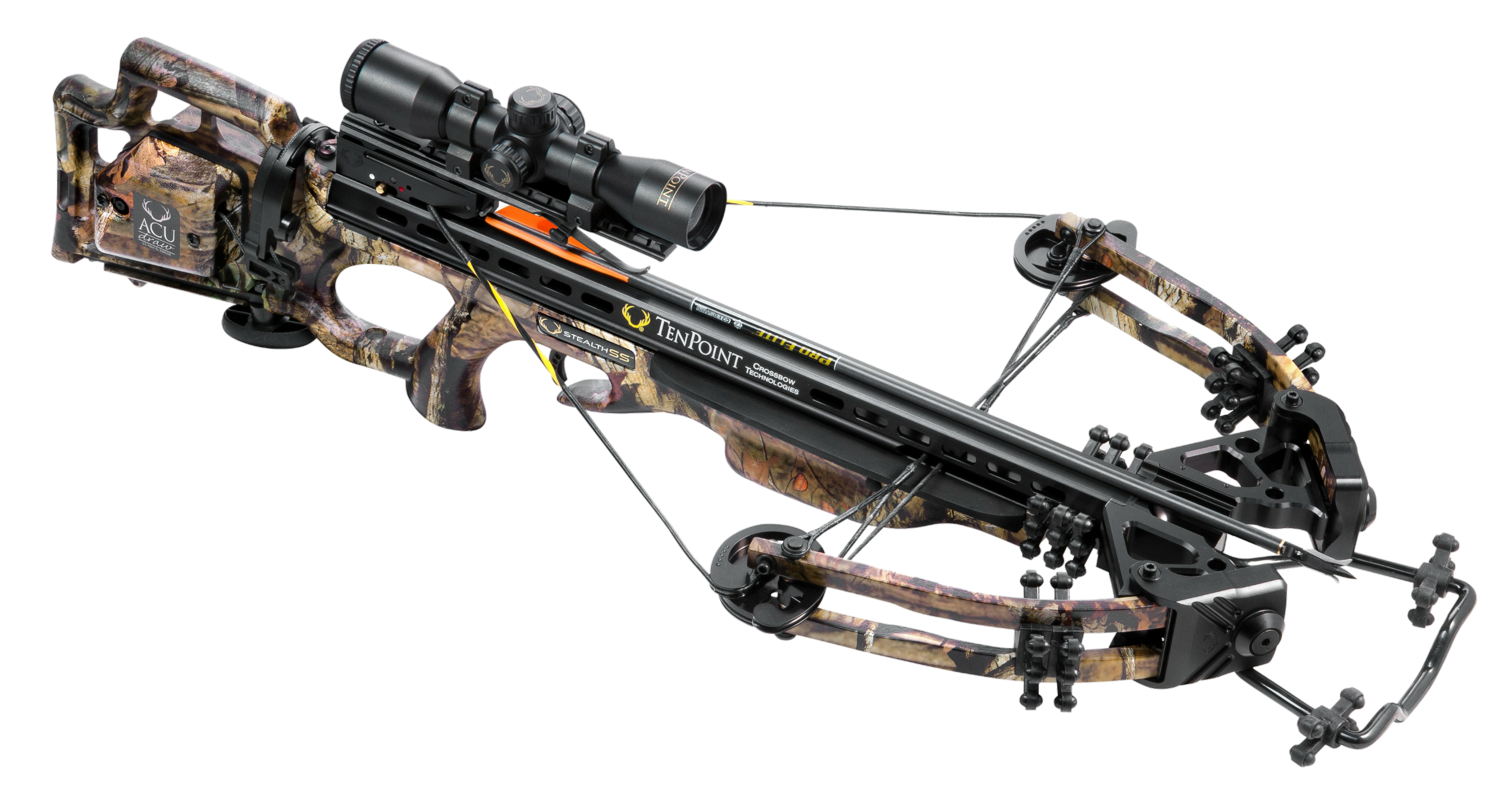 TenPoint Stealth SS crossbow